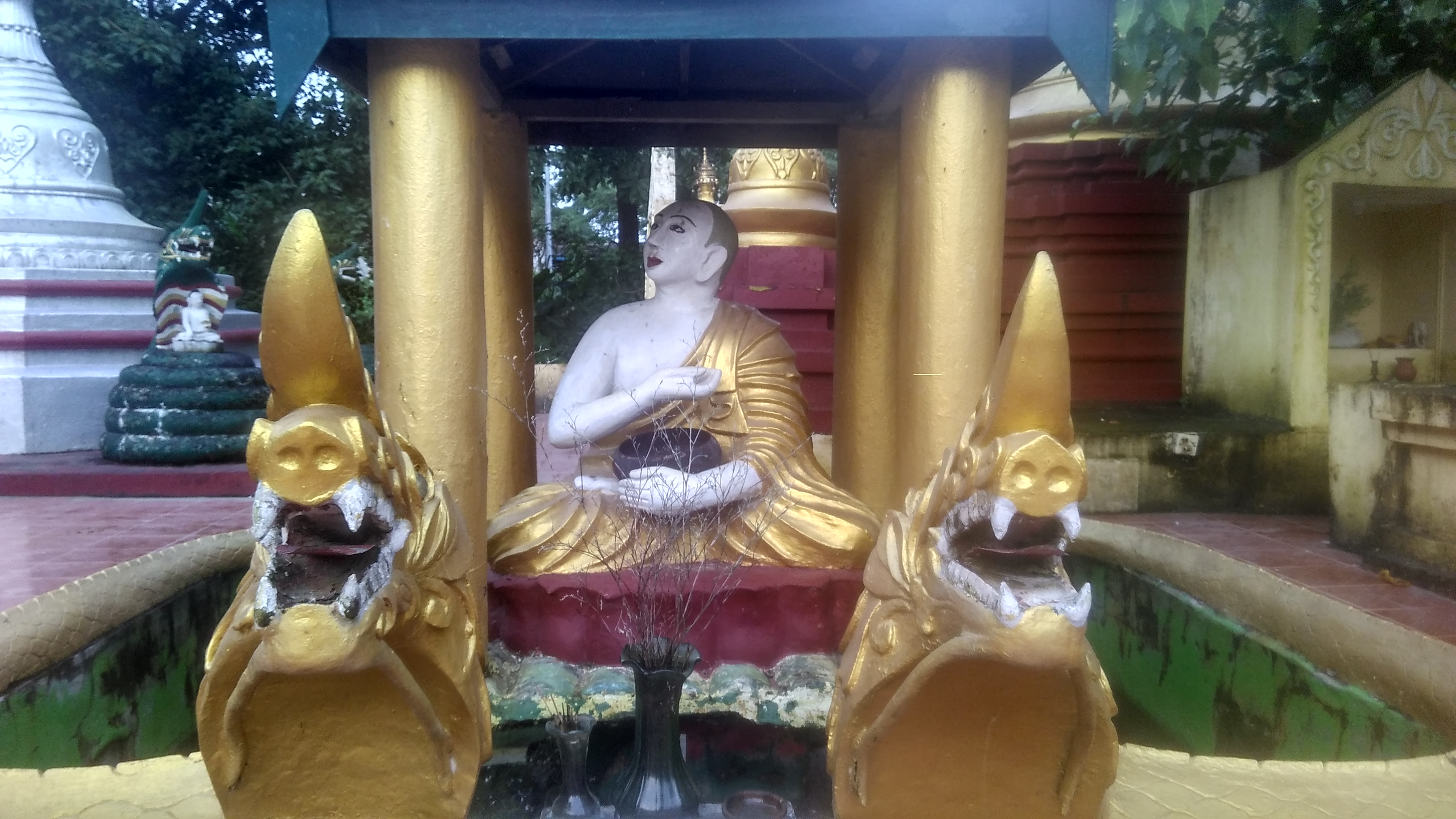 Ashin U Pa Gotta မြန်မာဘာသာ: အရှင်ဥပဂုတ္တ ရုပ်တု။ တြိရတနပရိယတ္တိစာသင်တိုက်၊ စက်မှု (၅) လမ်း၊ မေတ္တာညွန့်ရပ်ကွက်၊ တာမွေမြို့နယ်မှ ဓာတ်ပုံရိုက်ယူသည်။